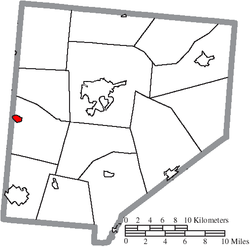 Map of the municipal and township boundaries of Clinton County, Ohio, United States, as of the 2000 census, with the location of the village of Clarksville highlighted. Township borders are shown only in unincorporated areas in order to differentiate incorporated and unincorporated areas more clearly.